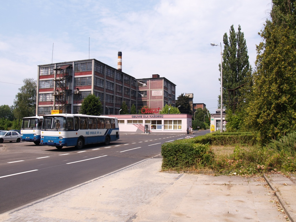 Shoe factory Otmęt at Krapkowice-Otmęt